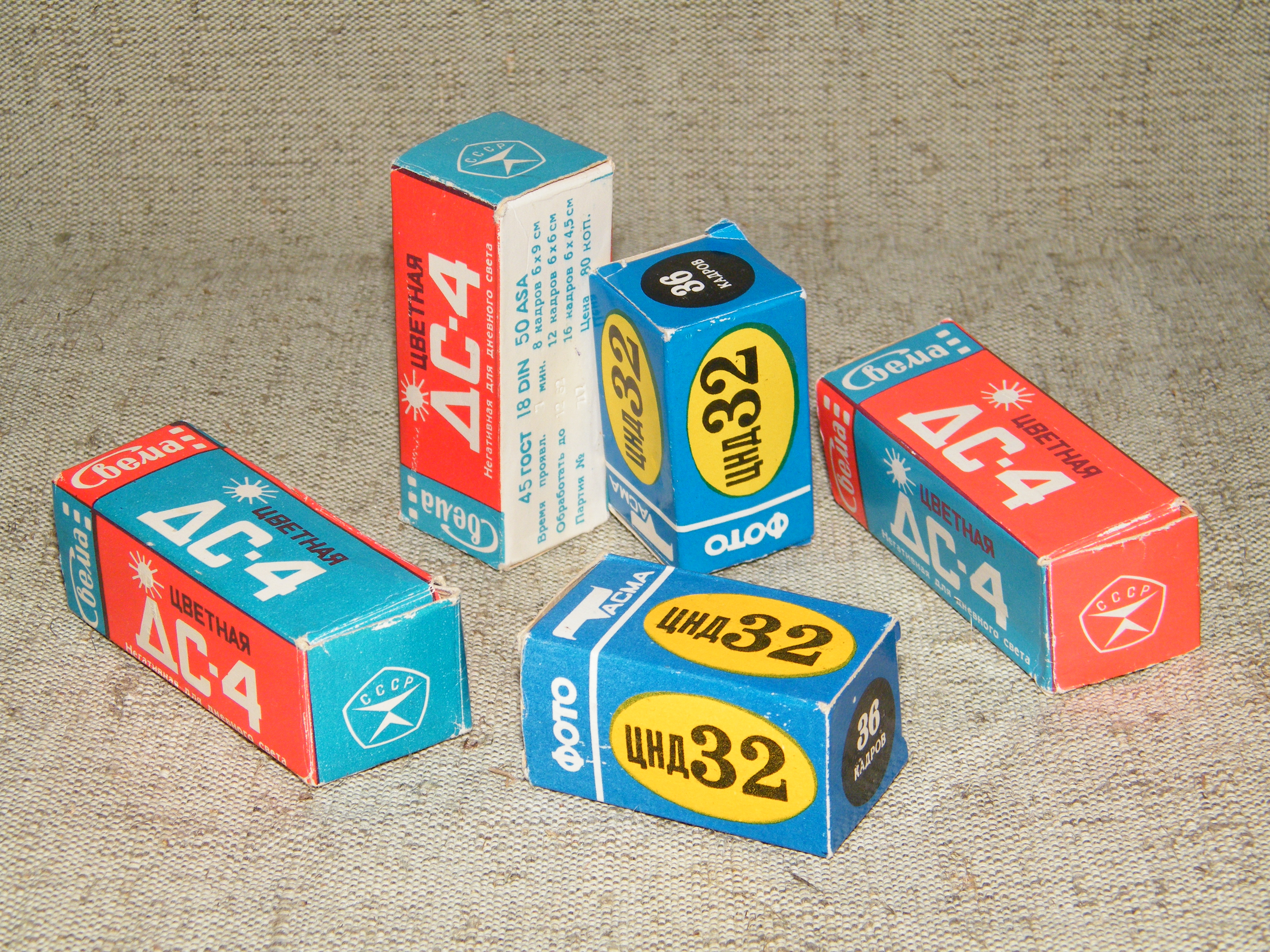 Фотопленка ЦНД-32 и ДС-4